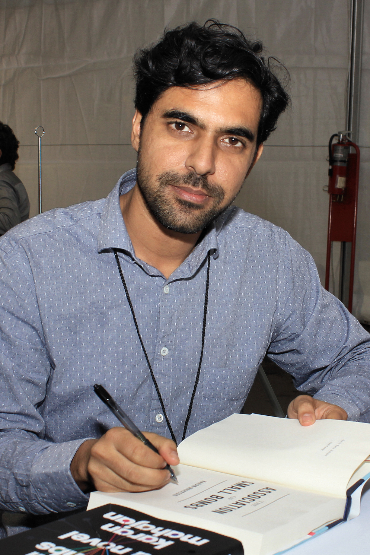 Author Karan Mahajan at the 2016 Texas Book Festival.